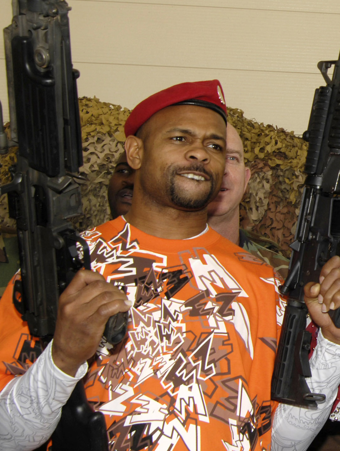 American boxer Roy Jones, Jr. posing with an M-249 and M-4 during a visit to the 720th Advanced Skills Training flight